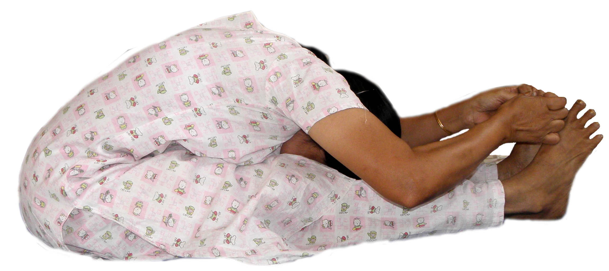 Back streching pose